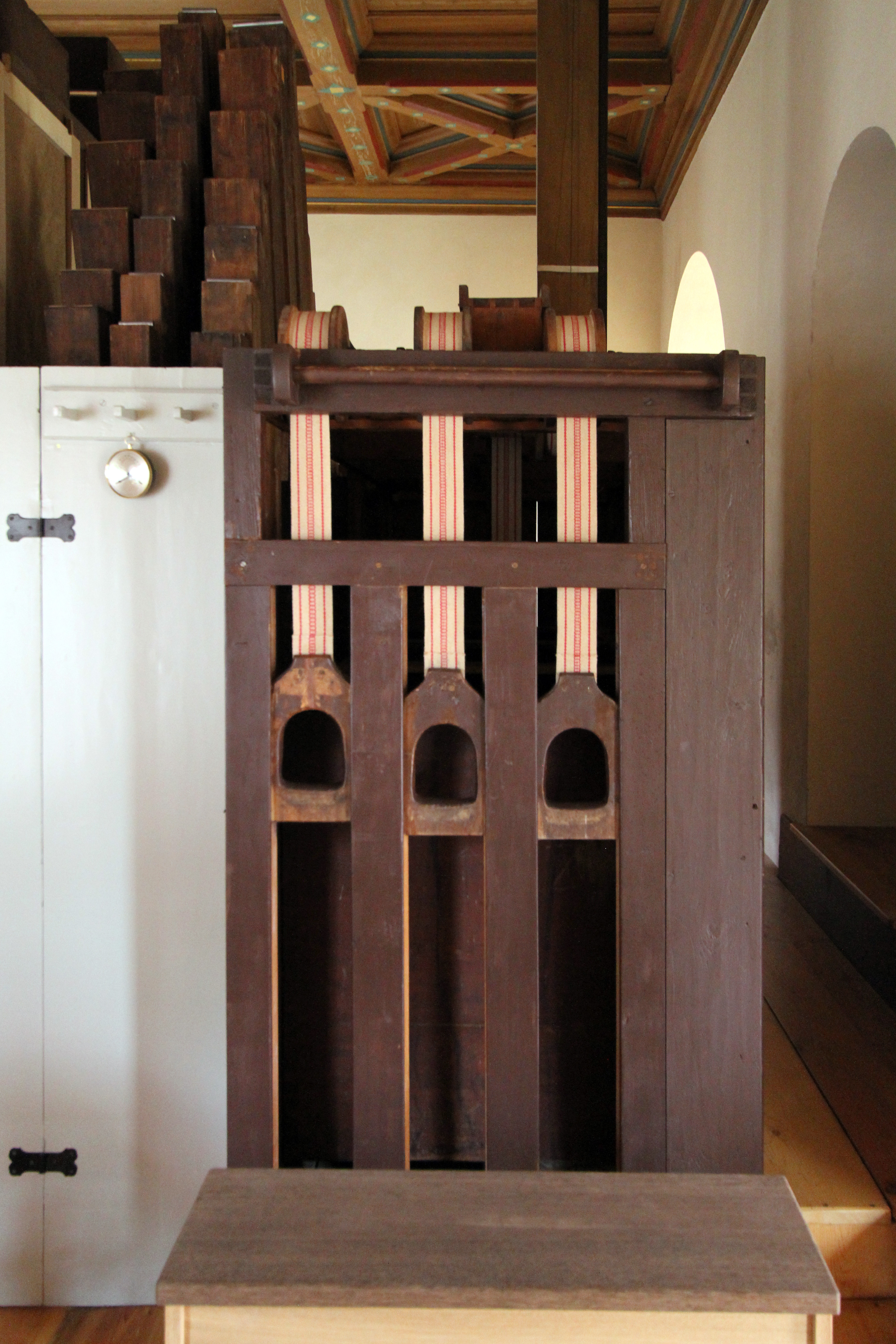 Church of St. Michael in Bobenthal, interior decoration.